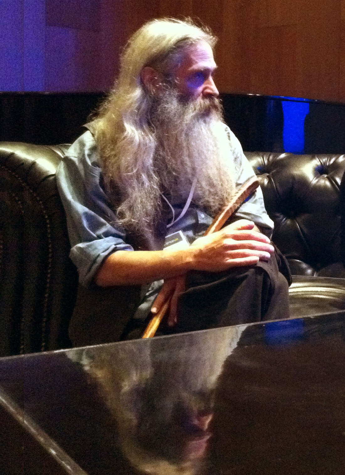 Michael Netzer at a panel on the history of Israeli superheroes at the ICon Festival in Tel-Aviv, October 16, 2011.